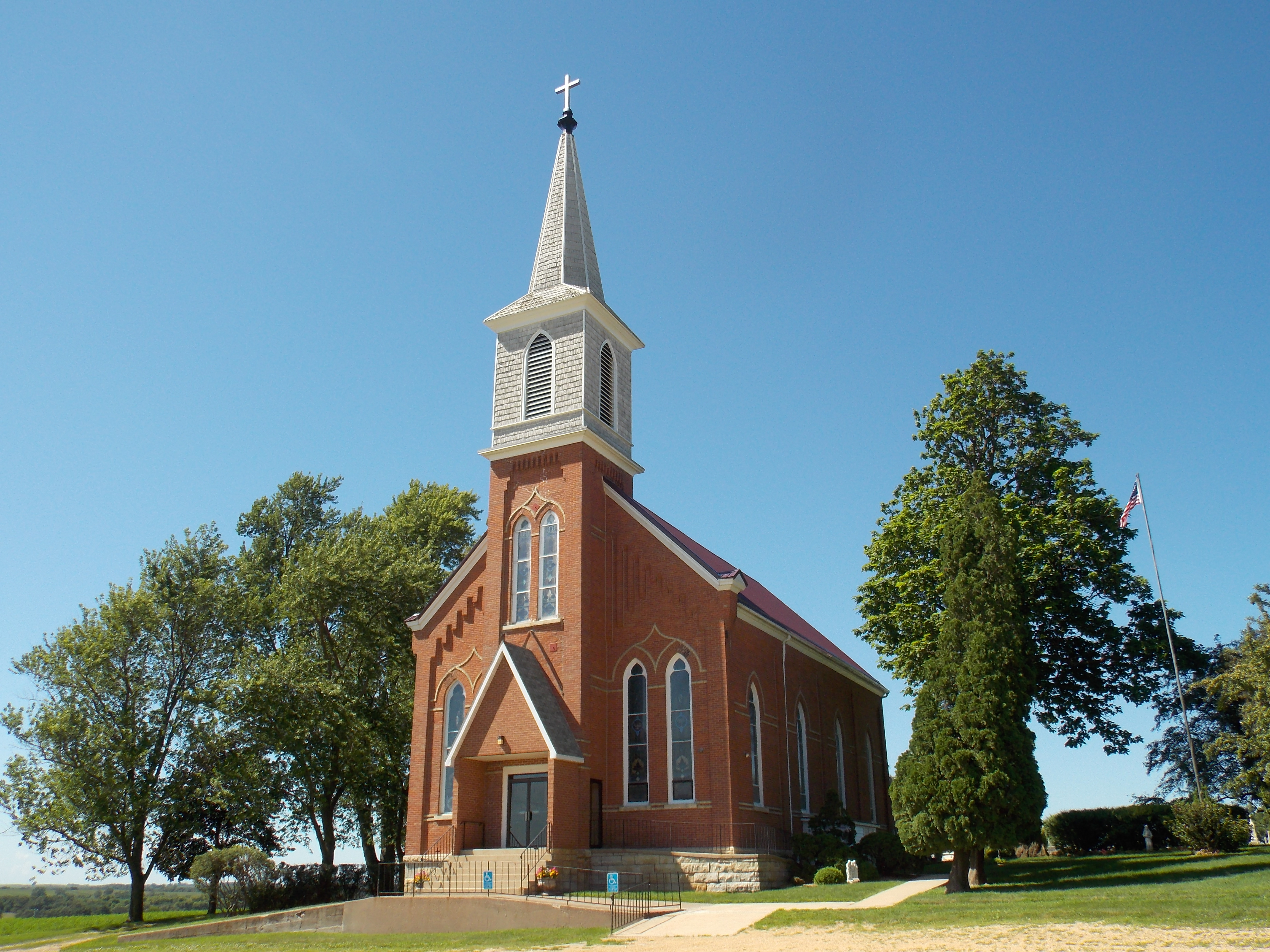 St. Joseph Catholic Church in rural Sugar Creek, Iowa.